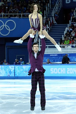 Meagan Duhamel and Eric Radford at the 2014 Winter Olympics